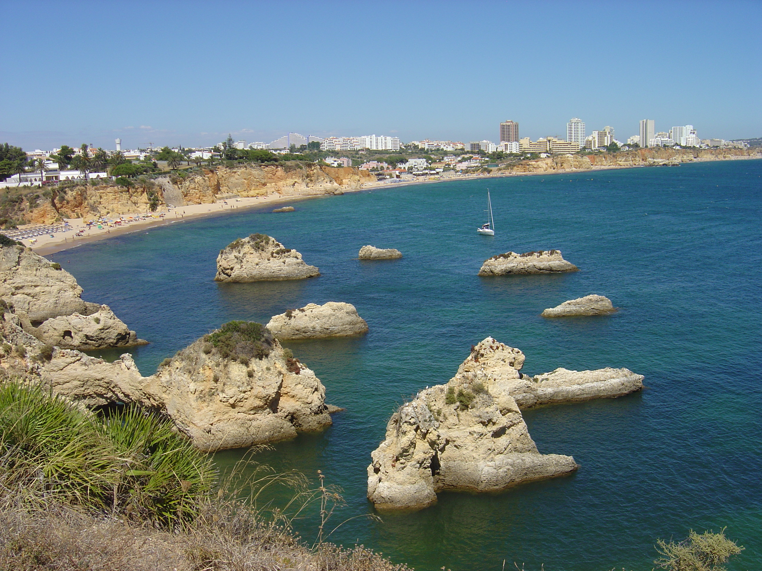 looking across to Praia do Vau and Portimão beyond, from Ponta de João de Arens, Portimão, Algarve, Portugal